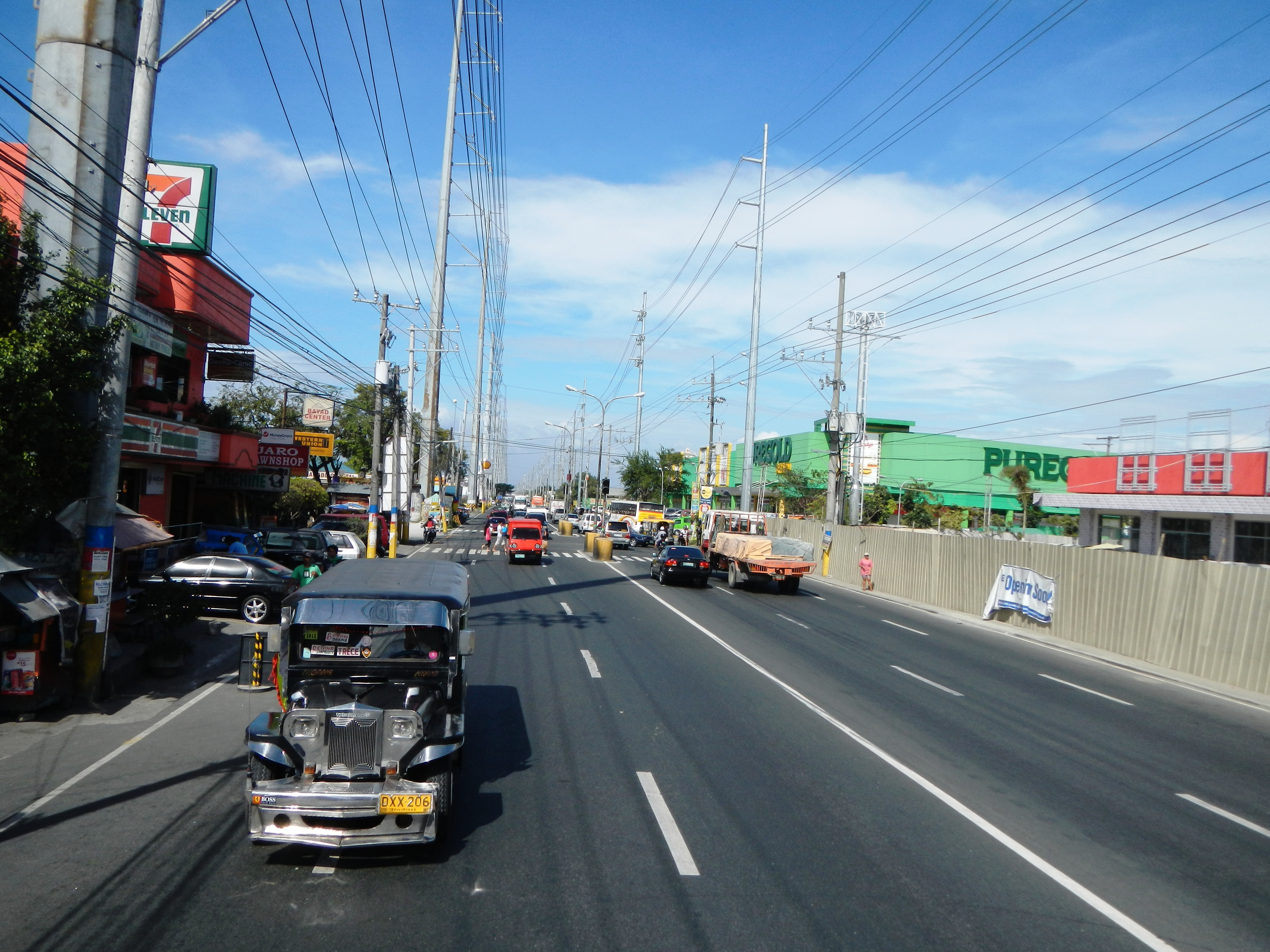 Upload Wizard photos of - Nasugbu, Batangas[1] - a) Archdiocesan Chancery - Parish Church of Saint Francis Xavier of Nasugbu solemnly dedicated on December 7, 2006, the 500th birthday of St. Francis Xavier[2] [3] Roman Catholic Archdiocese of Lipa Vicariate I – St. Francis Xavier.[4] and b) Aguinaldo Highway[5] passing Imus, Cavite[6] - Robinsons Place Imus, Shopwise, Savemore Supermarket, The District Ayala Malls.